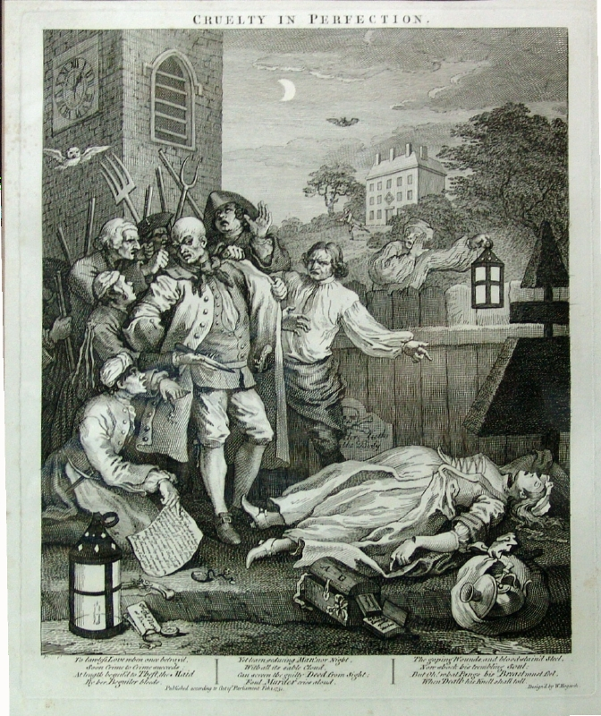 Four stages of cruelty - Cruelty in perfection, third of series of engravings